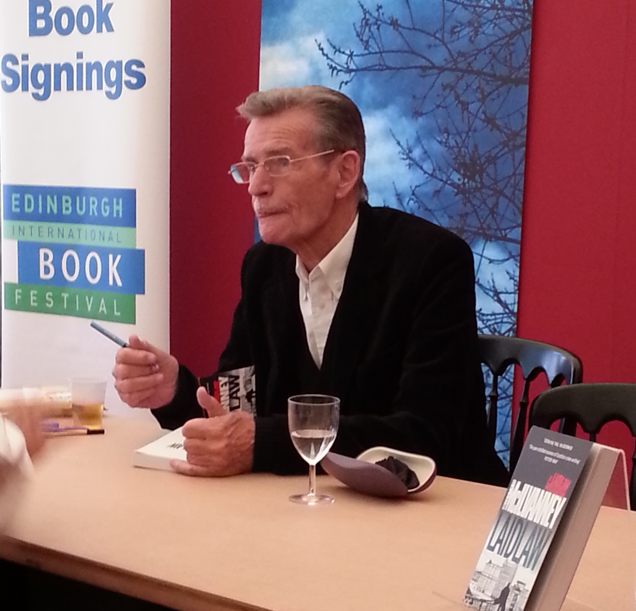 William McIlvanney signing books at the Edinburgh International Book Festival on 16 August 2013